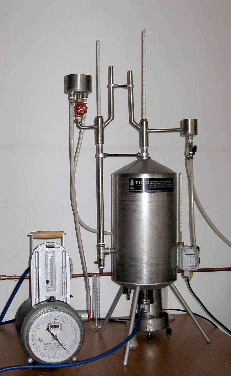 Junkers type water-flow calorimeter.